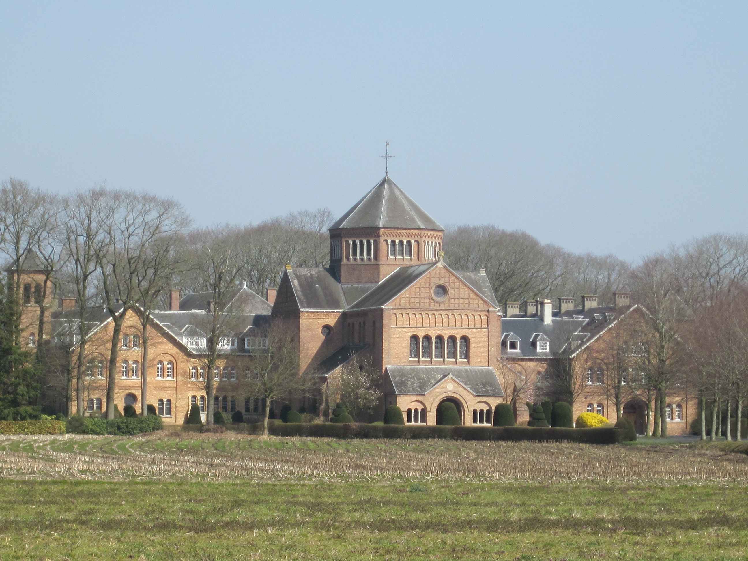 Priory Our Lady of Bethany, Loppem, Belgium